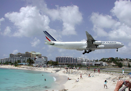 Air France Airbus A340 landing on Princess Juliana Airport in Saint Martin island (Dutch West Indies).